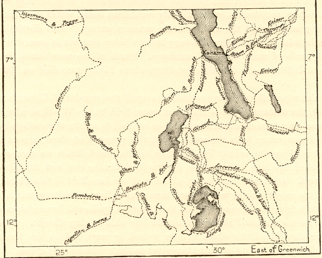 Congo Basin explorations occurring around 1890. Including the Lualaba River and Luapula River regions; and Lake Bangweulu, Lake Mweru, and Lake Tanganyika.